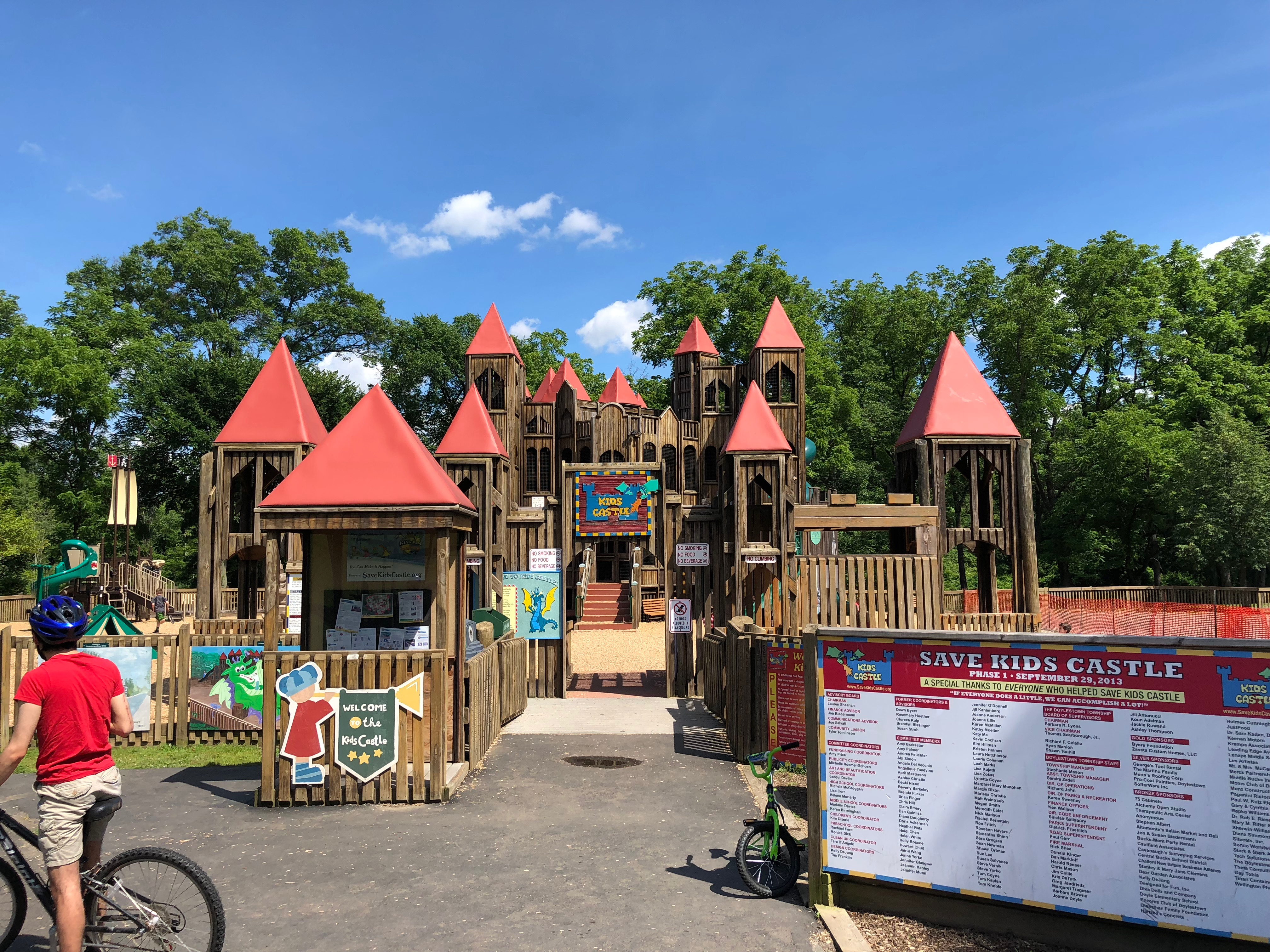 Kid's Castle in Doylestown PA